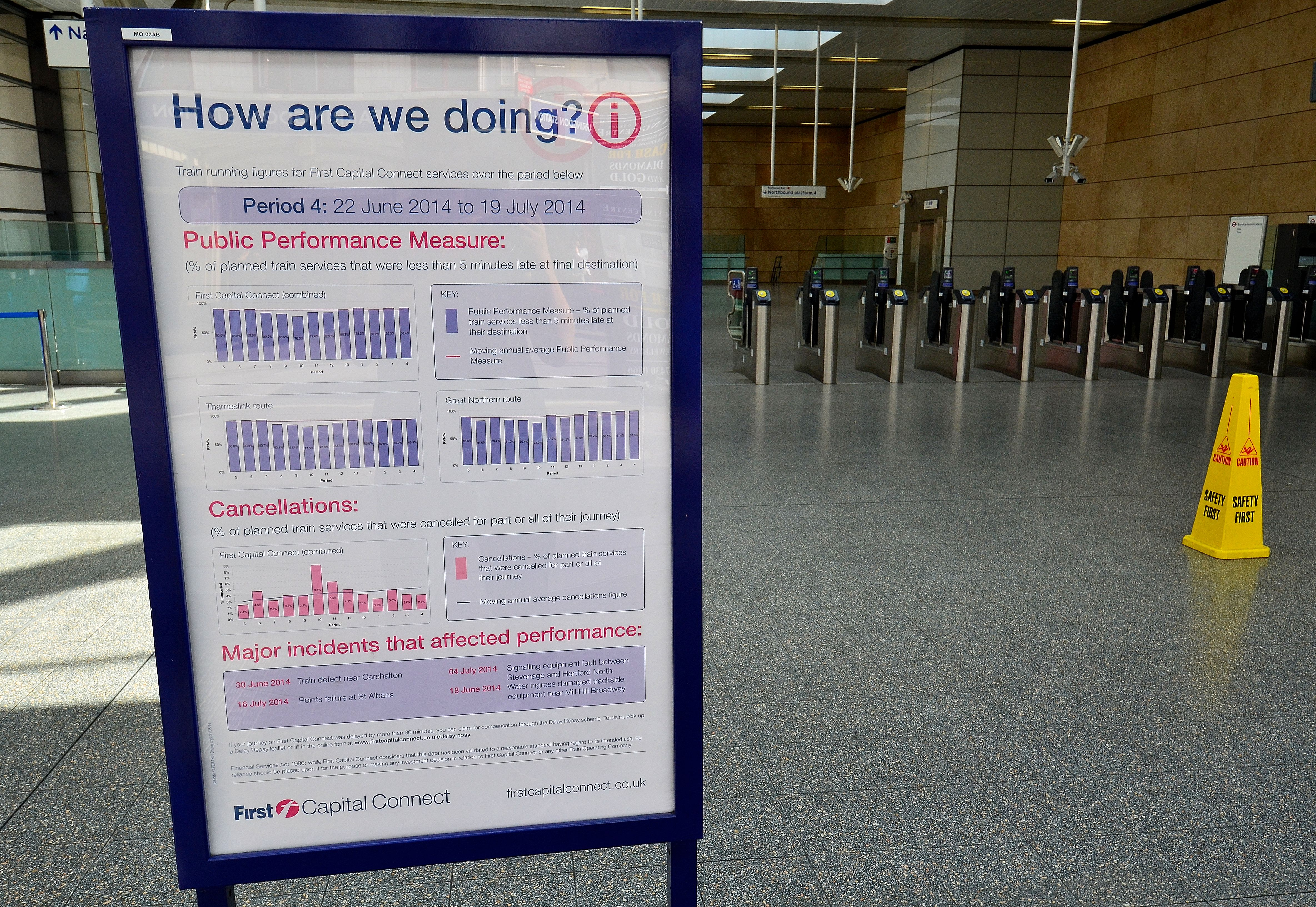 Farringdon railway station in London